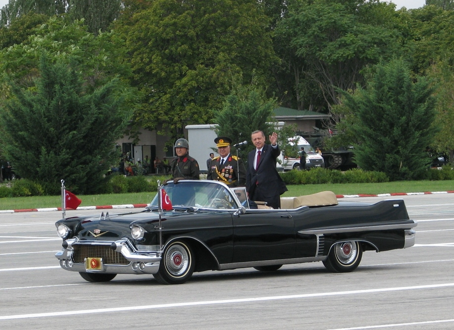 President of Turkey Recep Tayyip Erdoğan, participated in the ceremony held on the occasion of Victory Day, August 30, 2014